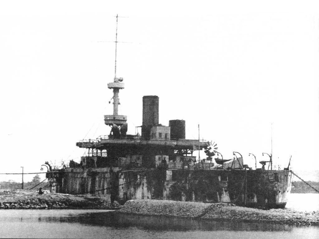 Russian Battleship Georgiy Pobedonosets in Bizerte.